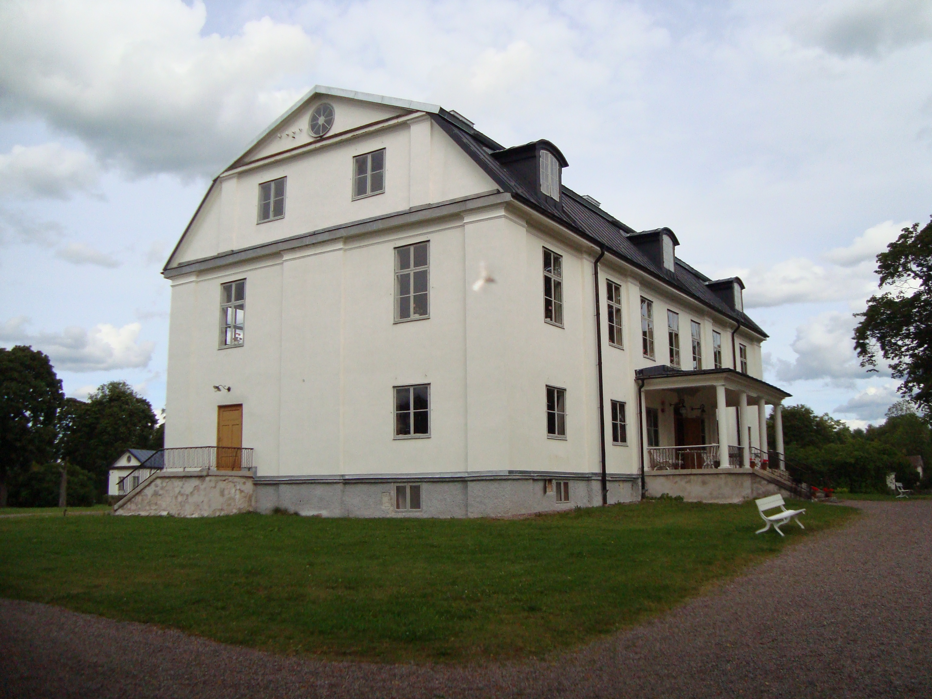 Stjärnsund mansion, main building, Hedemora Municipality, Sweden